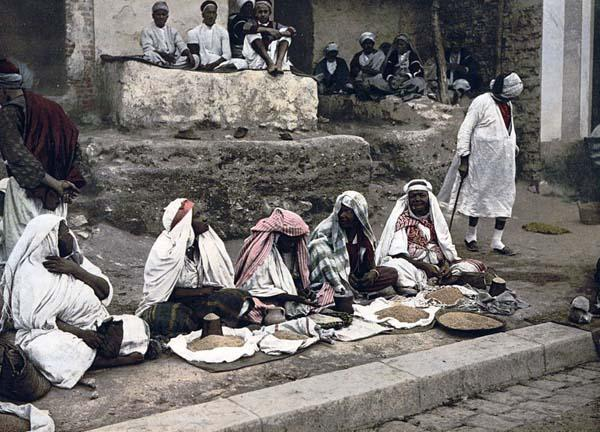 Photograph of Couscous sellers. This color photochrome print was taken in 1899 in Tunis, Tunisia.